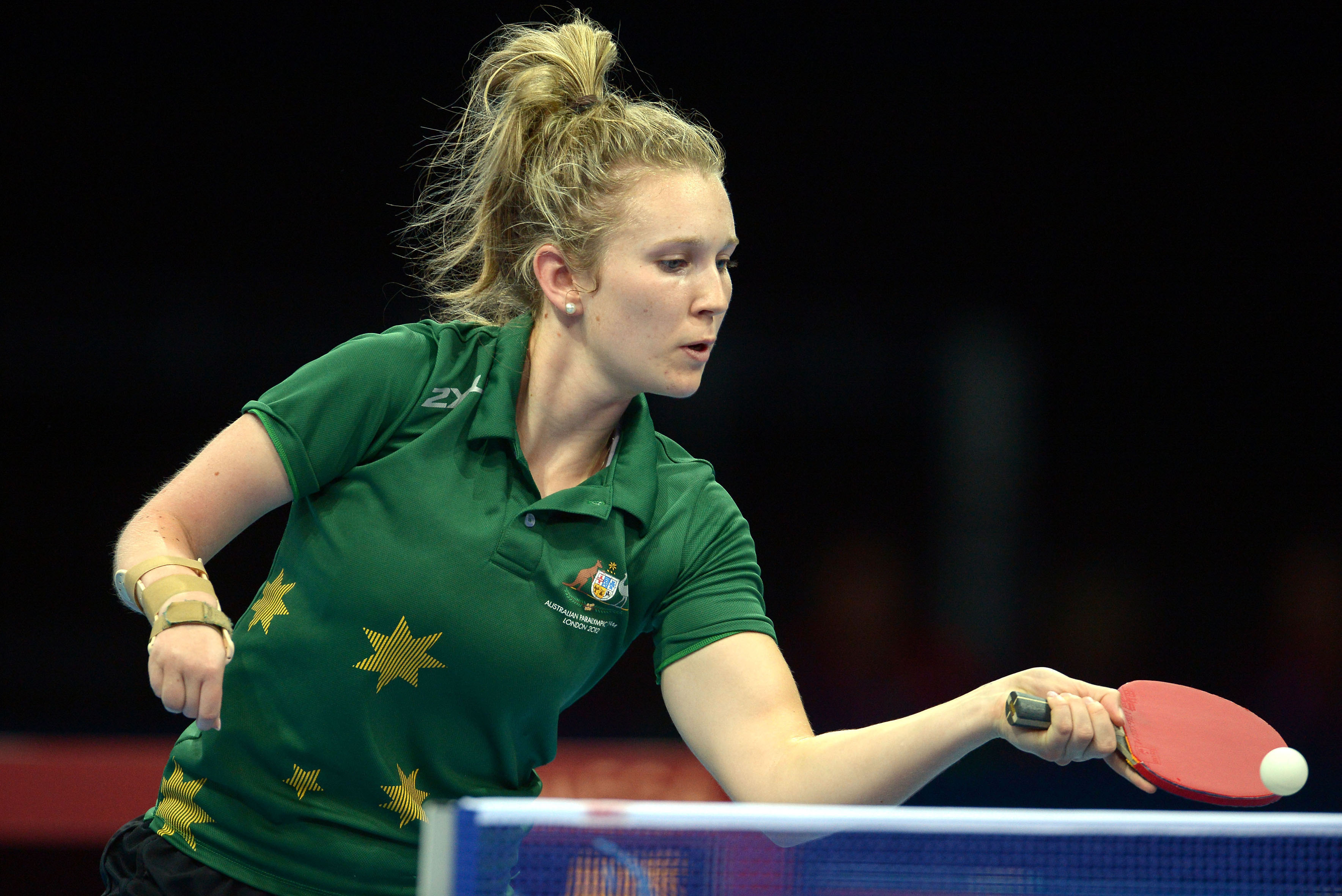 Photograph of Australian Paralympic team member Melissa Tapper at the 2012 Summer Paralympic Games in London